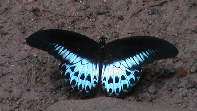 കൃഷ്ണശലഭം (Blue Mormon) Blue Mormon UP.jpg Papilio polymnestor ശാസ്ത്രീയ വർഗ്ഗീകരണം സാമ്രാജ്യം: Animalia ഫൈലം: Arthropoda ക്ലാസ്സ്‌: Insecta നിര: Lepidoptera കുടുംബം: Papilionidae ജനുസ്സ്: Papilio വർഗ്ഗം: P. polymnestor ശാസ്ത്രീയ നാമം Papilio polymnestor Cramer, 1775 ഇന്ത്യയിൽ കണ്ടുവരുന്ന രണ്ടാമത്തെ വലിയ പൂമ്പാറ്റയാണ് കൃഷ്ണശലഭം (Papilio polymnestor).ഇന്ത്യയിലും ശ്രീലങ്കയിലുമാണ് ഇവ കാണപ്പെടുന്നത്. ശരീരപ്രകൃതി കൃഷ്ണശലഭത്തിന്റെ ചിറകിന്റെ വലുപ്പം 120 മുതൽ 150 മില്ലിമീറ്റർ വരെയാണ്. ഇരുണ്ട നിറമുള്ള മുൻചിറകിൽ ഇളം നീല അടയാളങ്ങൾ കാണാം. ഇളം നീല നിറമുള്ള പിൻചിറകുകളിൽ കറുത്ത പുള്ളികളും ഉണ്ട്. ചിറക് അടച്ചാൽ അതിന്റെ ആരംഭഭാഗത്ത് ചുവന്ന പൊട്ടും ഉണ്ടാവും. ആകെ കൂടി ഇരുണ്ട നീലനിറമായതുകൊണ്ടാണ് ഇവയെ കൃഷ്ണശലഭം എന്ന് പേര് വരാൻ കാരണം. പെൺശലഭങ്ങൾക്കാണ് വലിപ്പക്കൂടുതൽ ഉള്ളത്.